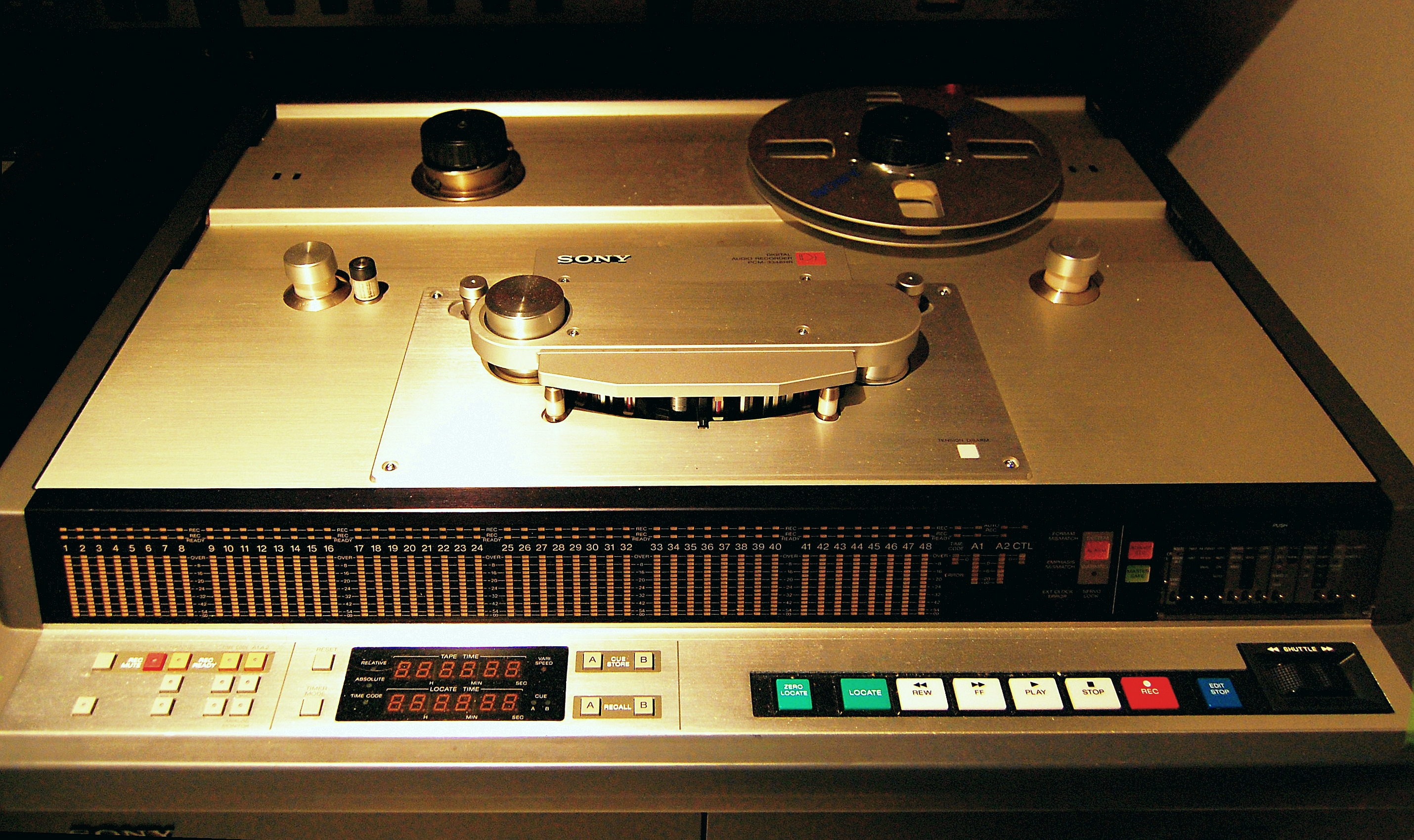 Sony PCM-3348HR Digital Audio Multitrack Recorder, Avex Honolulu Studios